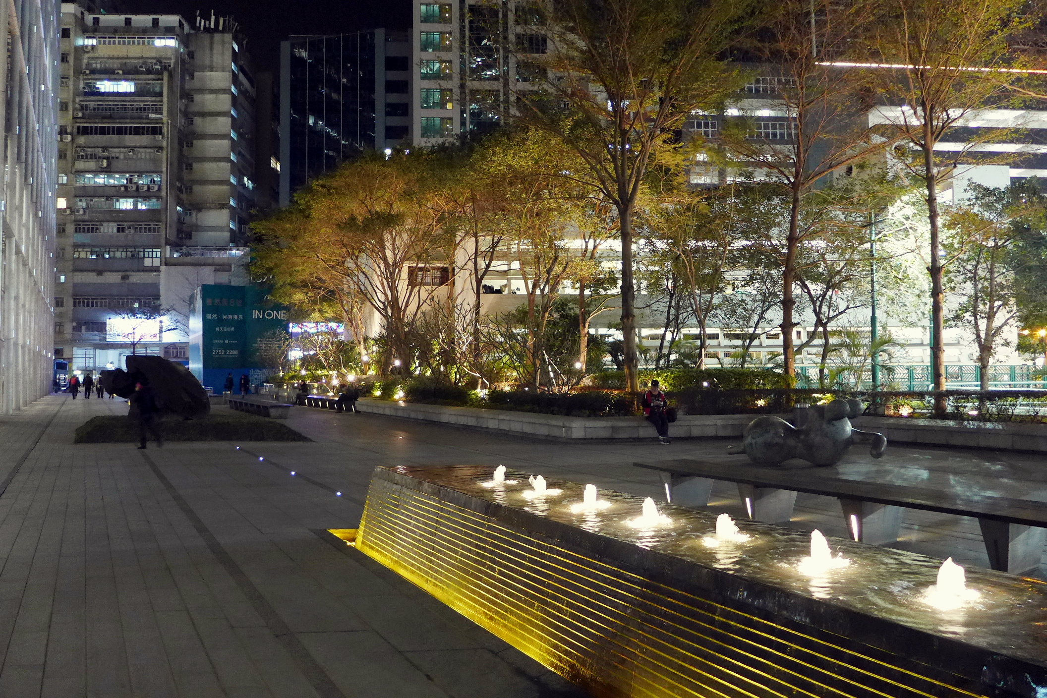 Landmark East outdoor open space